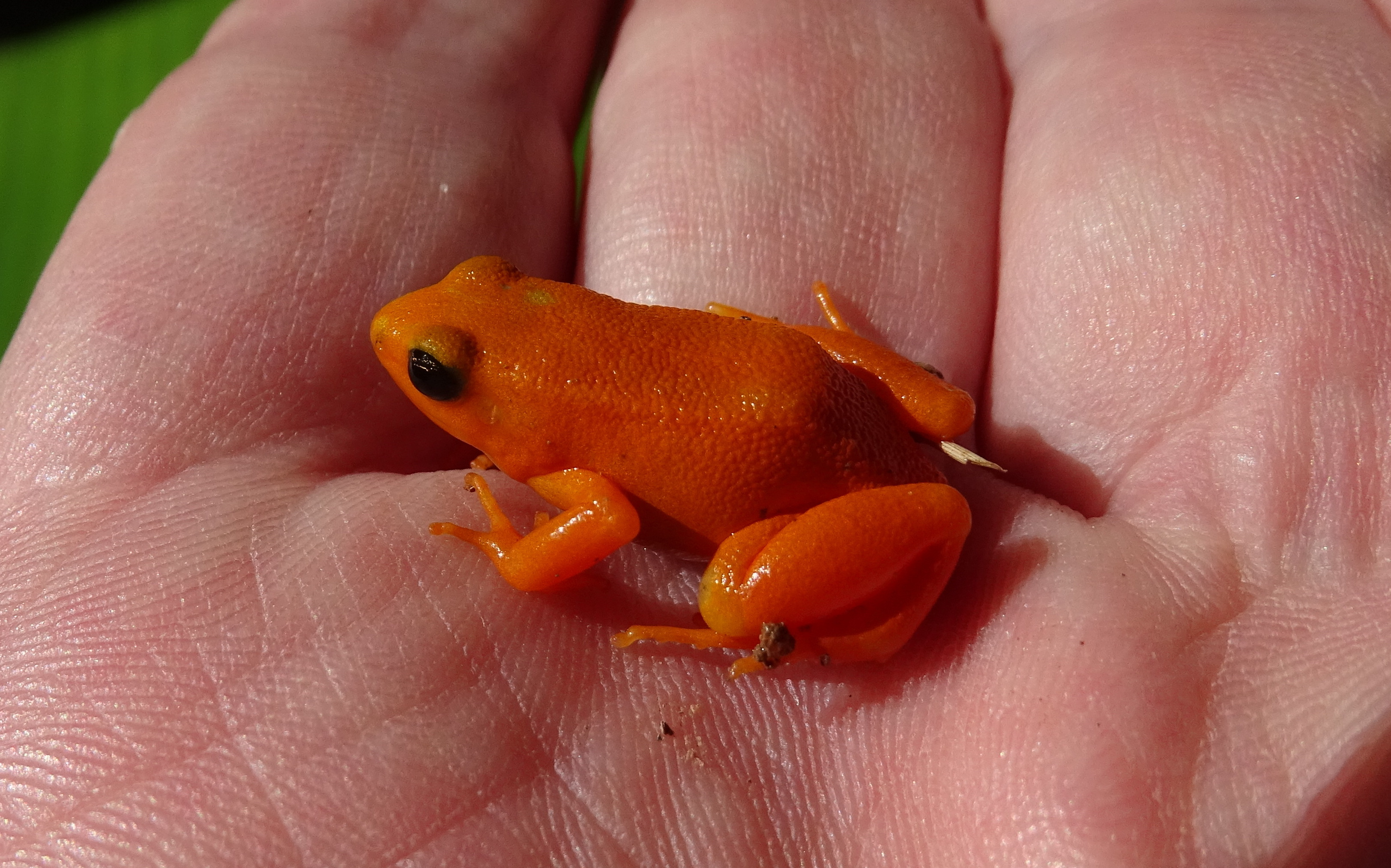 Golden Mantella frog (Mantella aurantiaca), Peyrieras Reptile Reserve